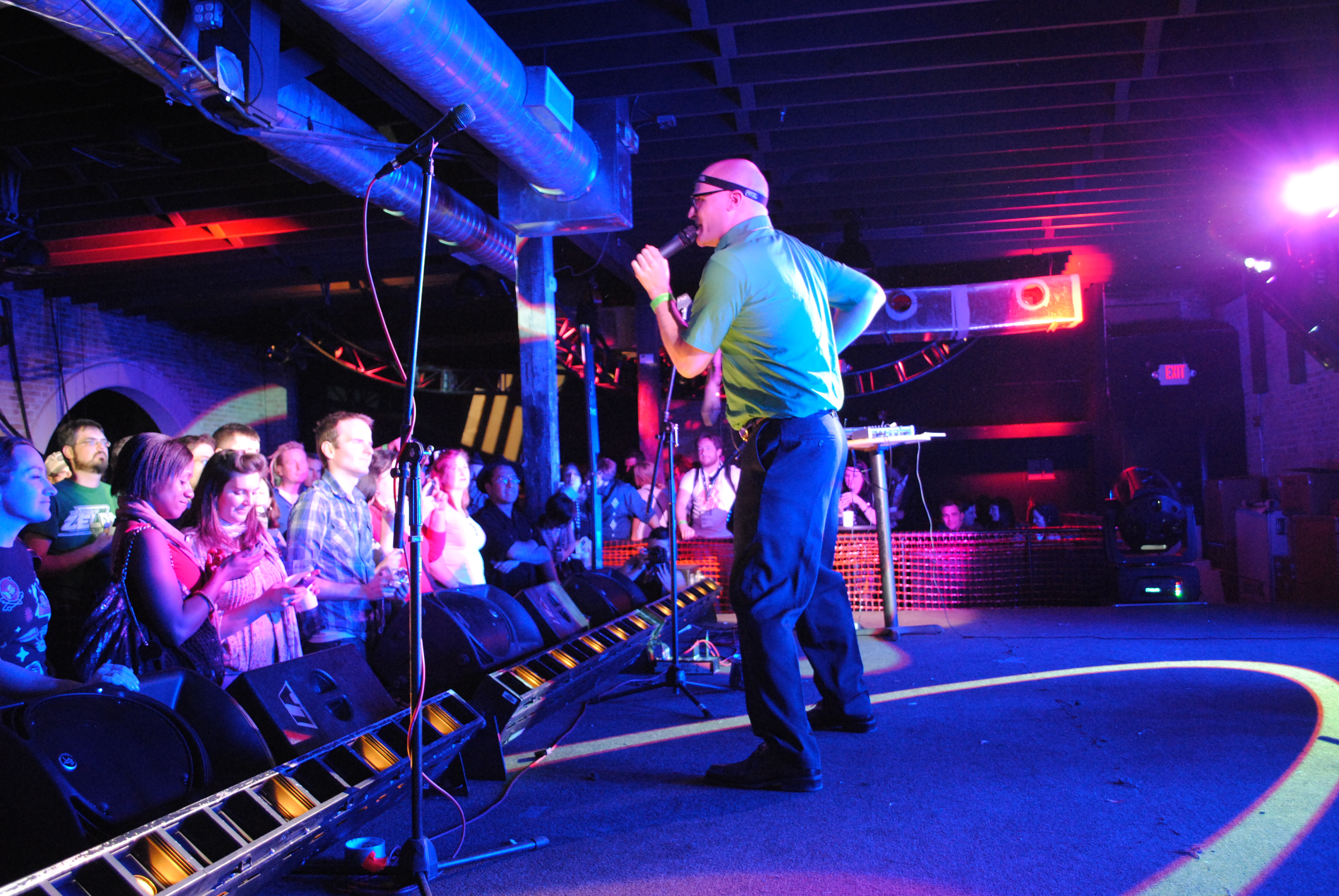 MC Frontalot at South by Southwest 2010.